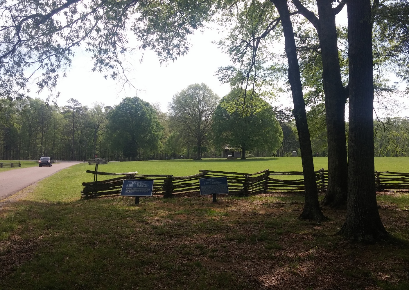 Chickamauga battlefield; Brotherton field, Brotherton house and Dyer road.